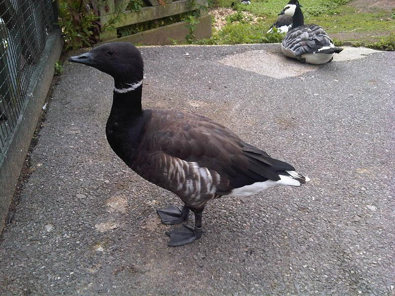 Brant Goose (Branta bernicla) in WWT London Wetland Centre, England.